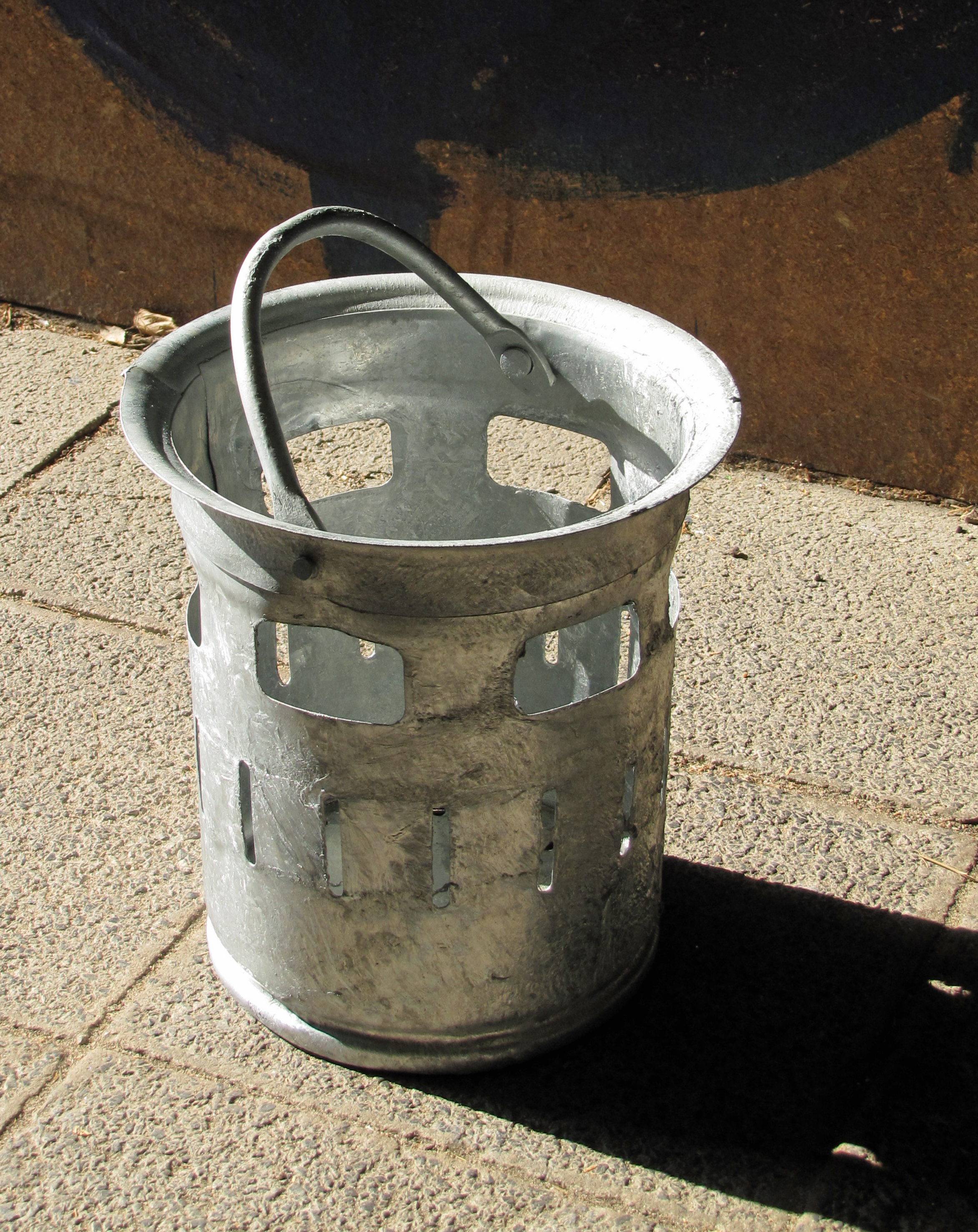 Bucket of drain system.